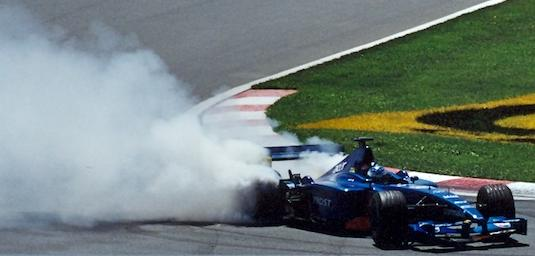 Jean Alesi celebrates his fifth-place finish at the 2001 Canadian Grand Prix.